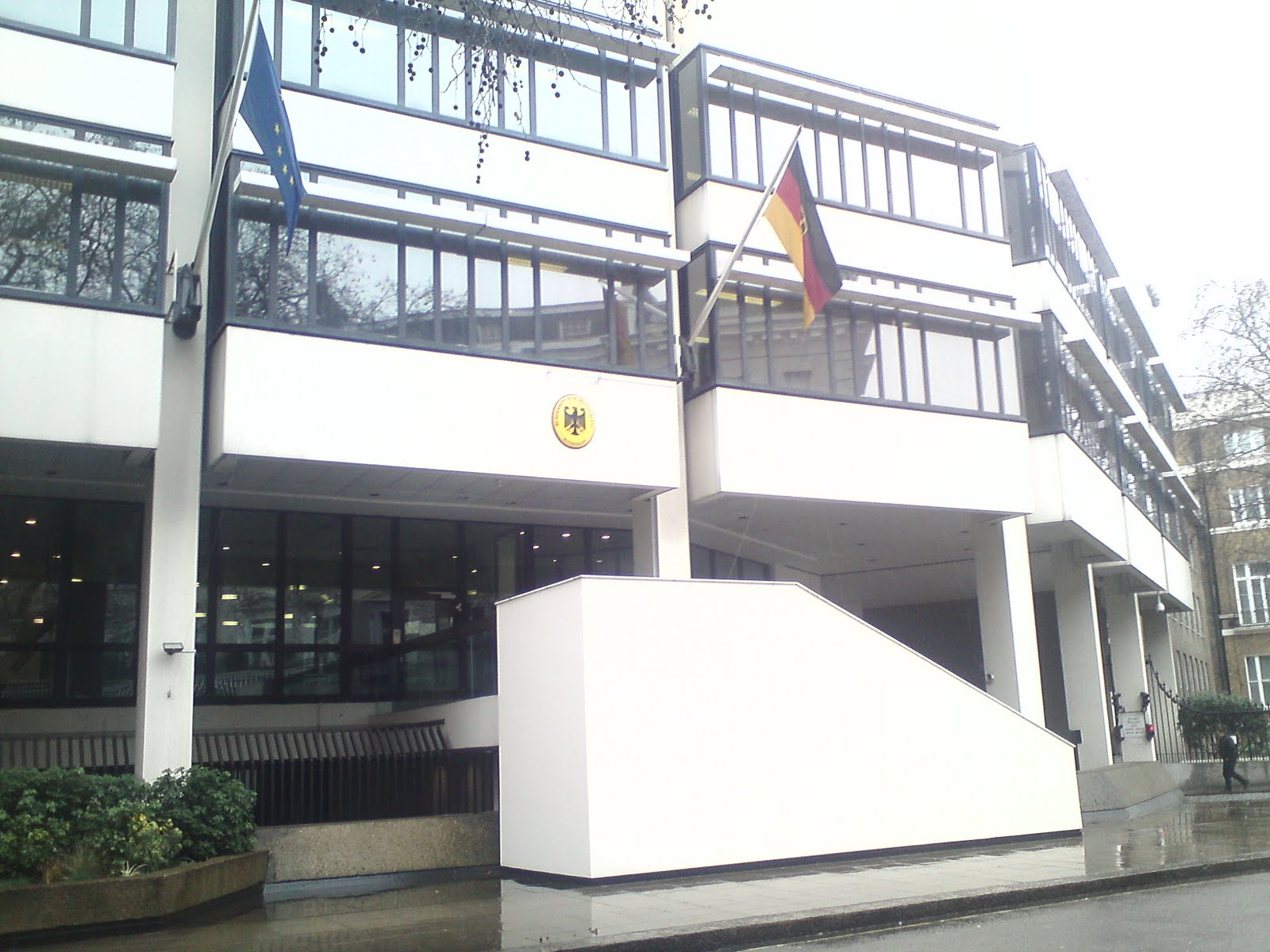 German Embassy in London, UK